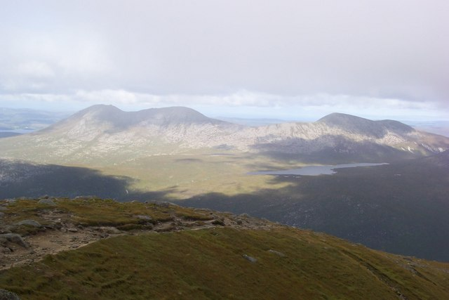 Beinn Bharrain from Beinn Tarsuinn. Beinn Bharrain on the left of the ridge from Beinn Tarsuinn.